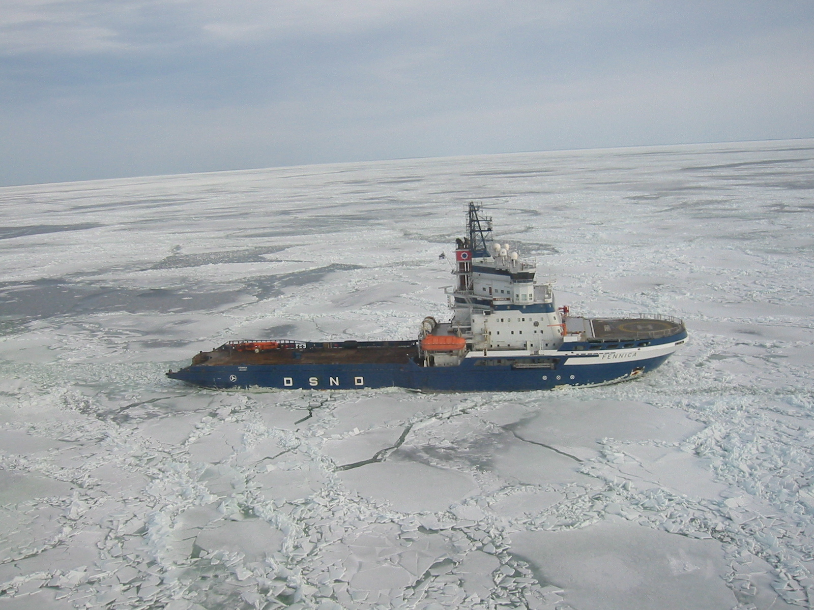 Finnish icebreaker Fennica in the Bay of Botnia IMO Number: 9043615 MMSI Number: 230245000 Callsign: OJAD Length: 116 m Beam: 26 m